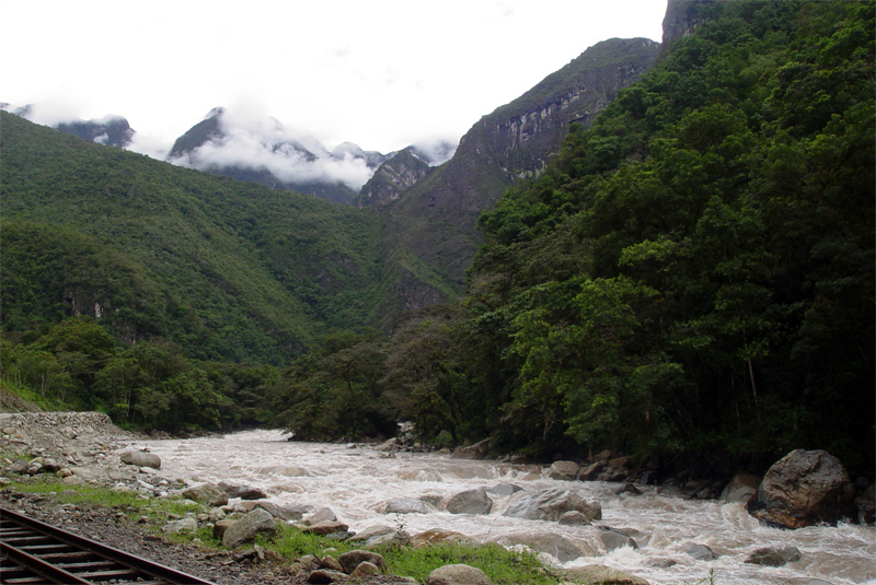 Urubamba river